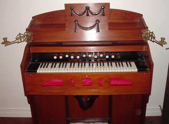 Photo of a two-foot-propelled organ instrument. Author is User Palthrow [1]. Photo taken with a 2 Megapixel Sony Cybershot.